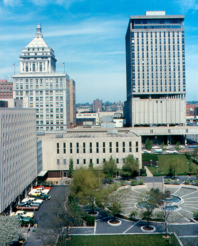 Another view from wing 5B of the Caterpillar Administration building. Courthouse Square is in the foreground. The plaza had been developed in the 1960s. The First National Bank building is on the left, and the Savings Tower is on the right. The First National Bank of Peoria is now part of Commerce Bank, headquartered in Kansas City, Missouri. The 20-story Savings Tower was completed in 1969.